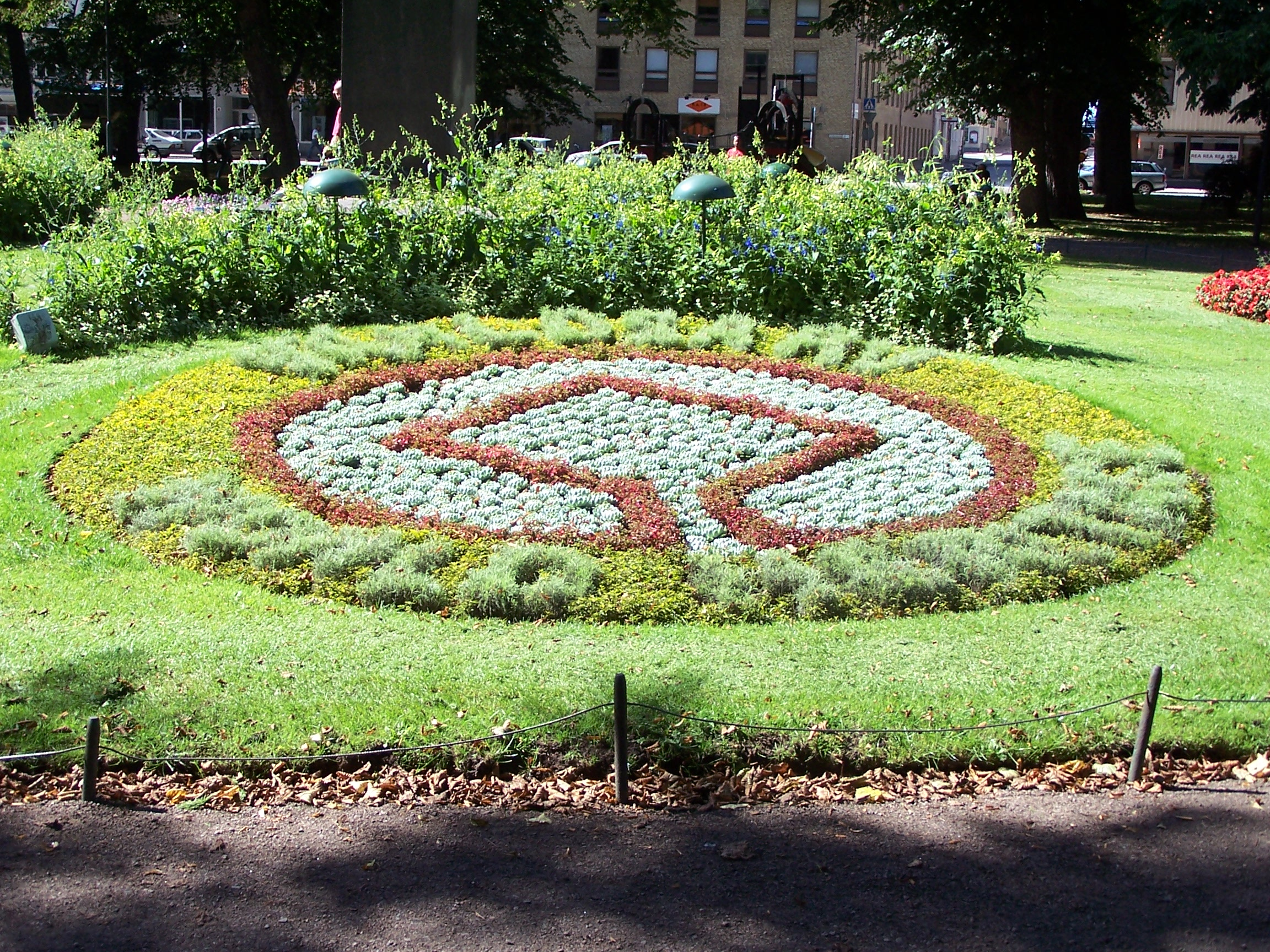 World Heritage Emblem planting, Hoglands Park, Karlskrona, Sweden.